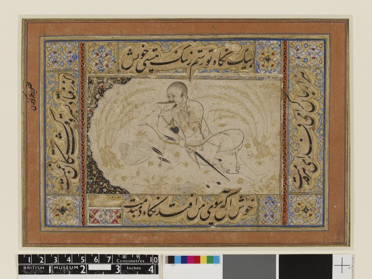 Persian drawing of Hülegü taking a drink. Although he is leaning on a mace, holding his bow, with arrows scattered about, still, the artist conveys a very peaceful moment